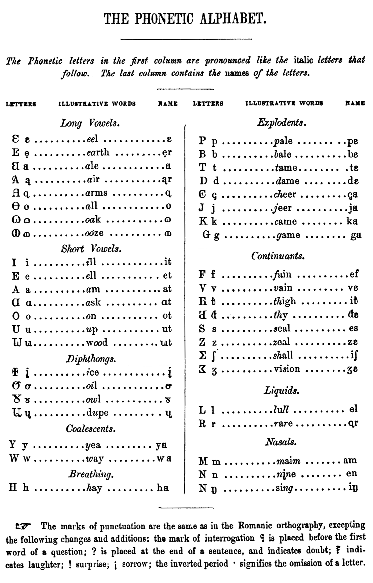 Chart of vowels and consonants symbols of the Phonetic Alphabet of the American Phonetic Journal (Cincinnati, 1855), a derivative of the English Phonotypic Alphabet.